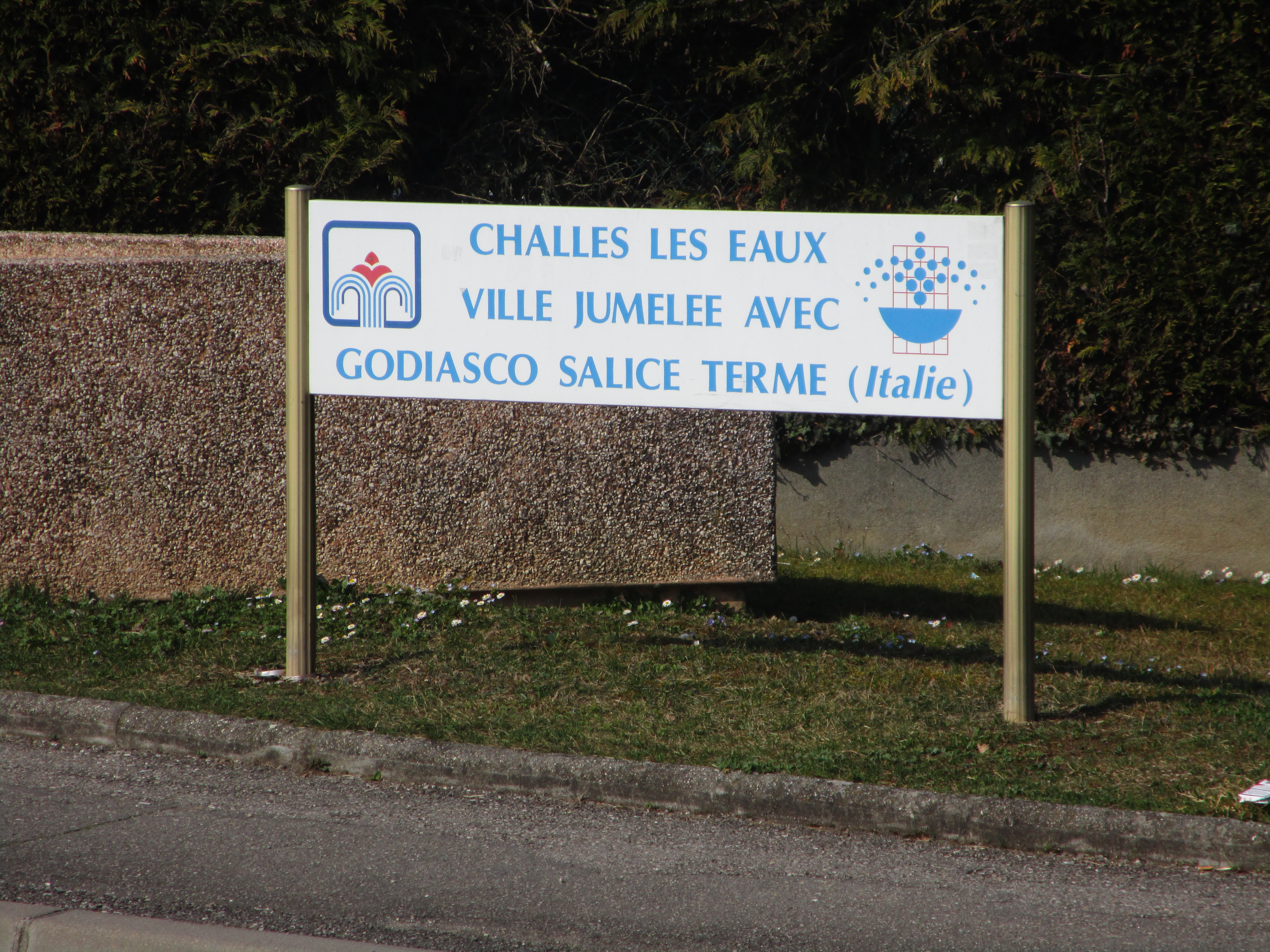 One of the plate which commemorate the twinning between Challes-les-Eaux and Godiasco Salice Terme.